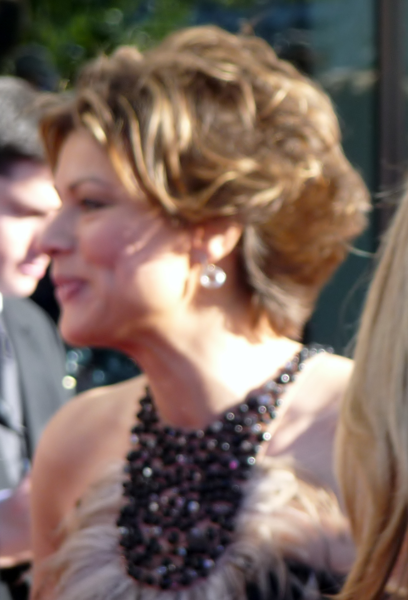 Kate Silverton at the BAFTA's This photo was taken on April 26, 2009 in South Bank, London, England, GB, using a Panasonic DMC-TZ4.